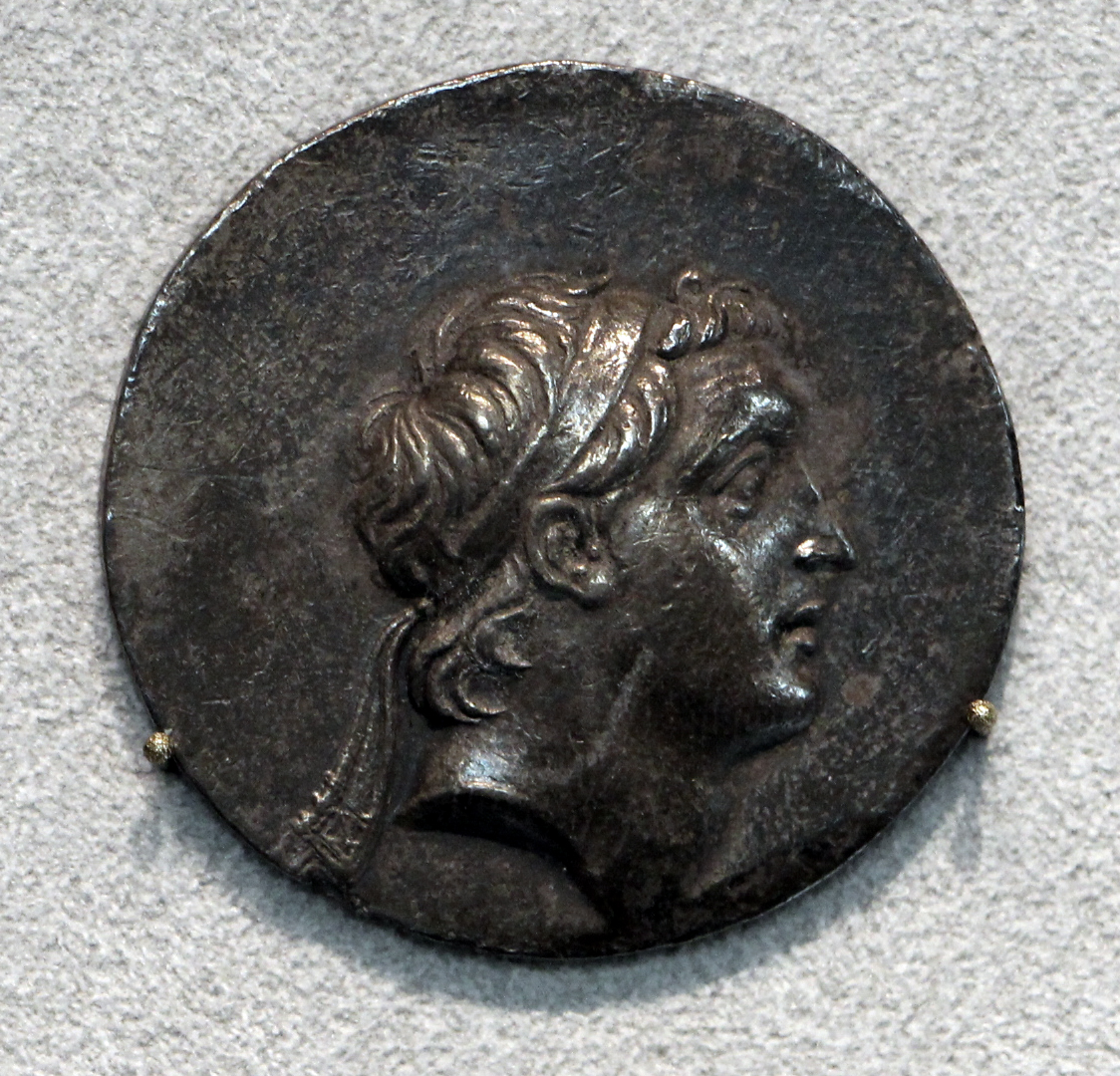 Ancient Greek coins in the Altes Museum Berlin